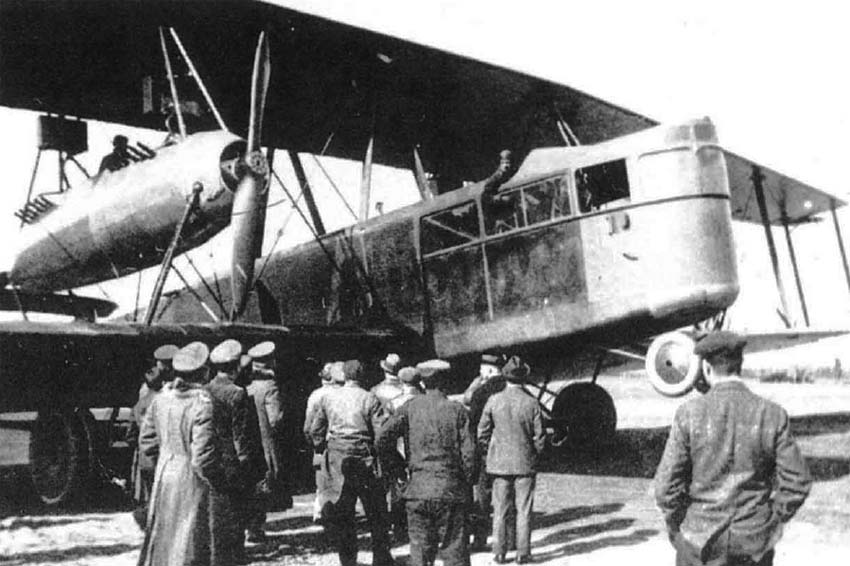 Photo of Zeppelin-Staaken R.XIV WW1 aircraft samf4u, 1.jpg